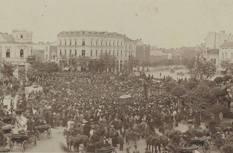 Photo from the funeral of Aleko Konstantinov.